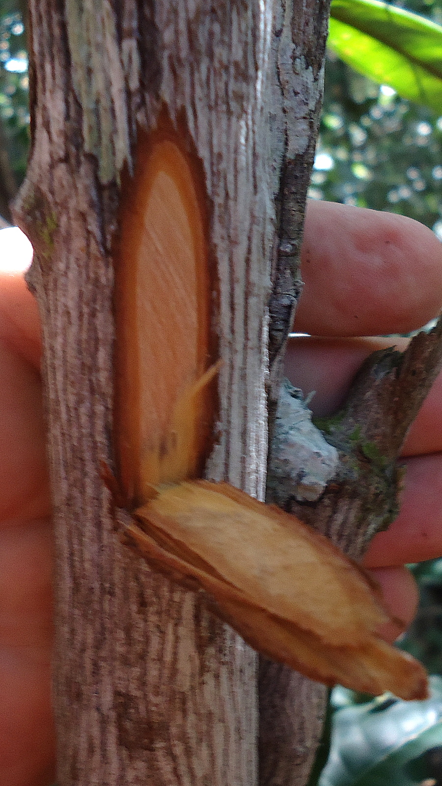 Amaioua sp., Rubiaceae, Atlantic forest, northeastern Bahia, Brazil